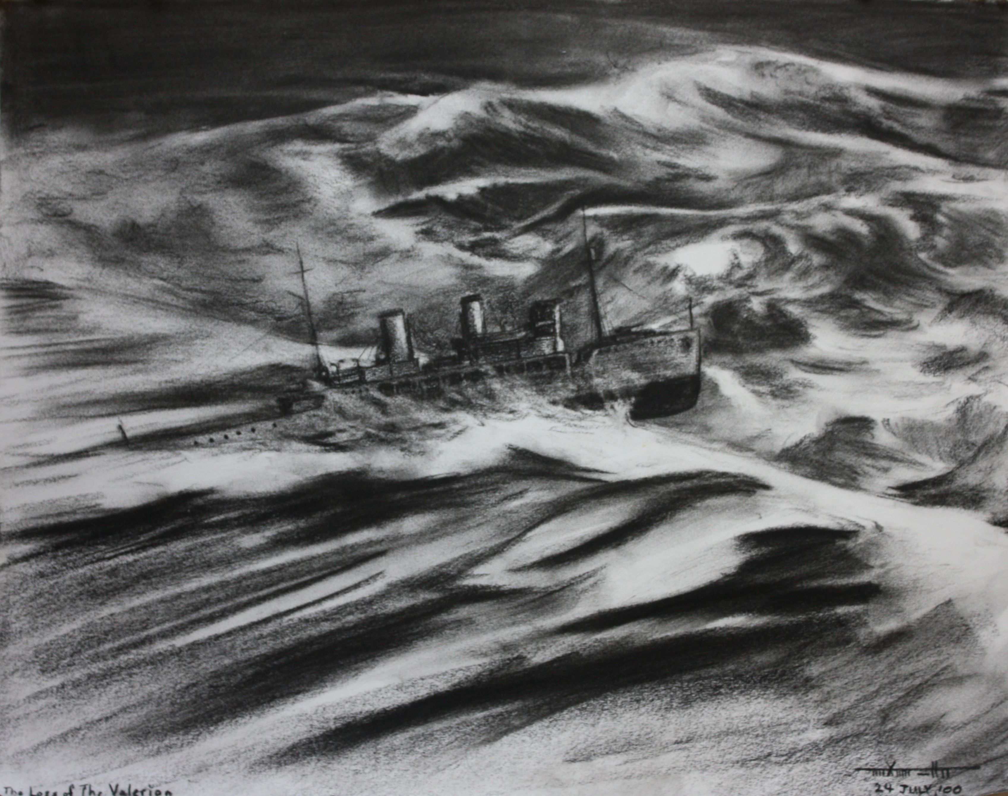 Artists's impression of the loss of the Arabis-class sloop HMS Valerian off Bermuda during Hurricane Ten of the 1926 Hurricane Season on 22 October, 1926.